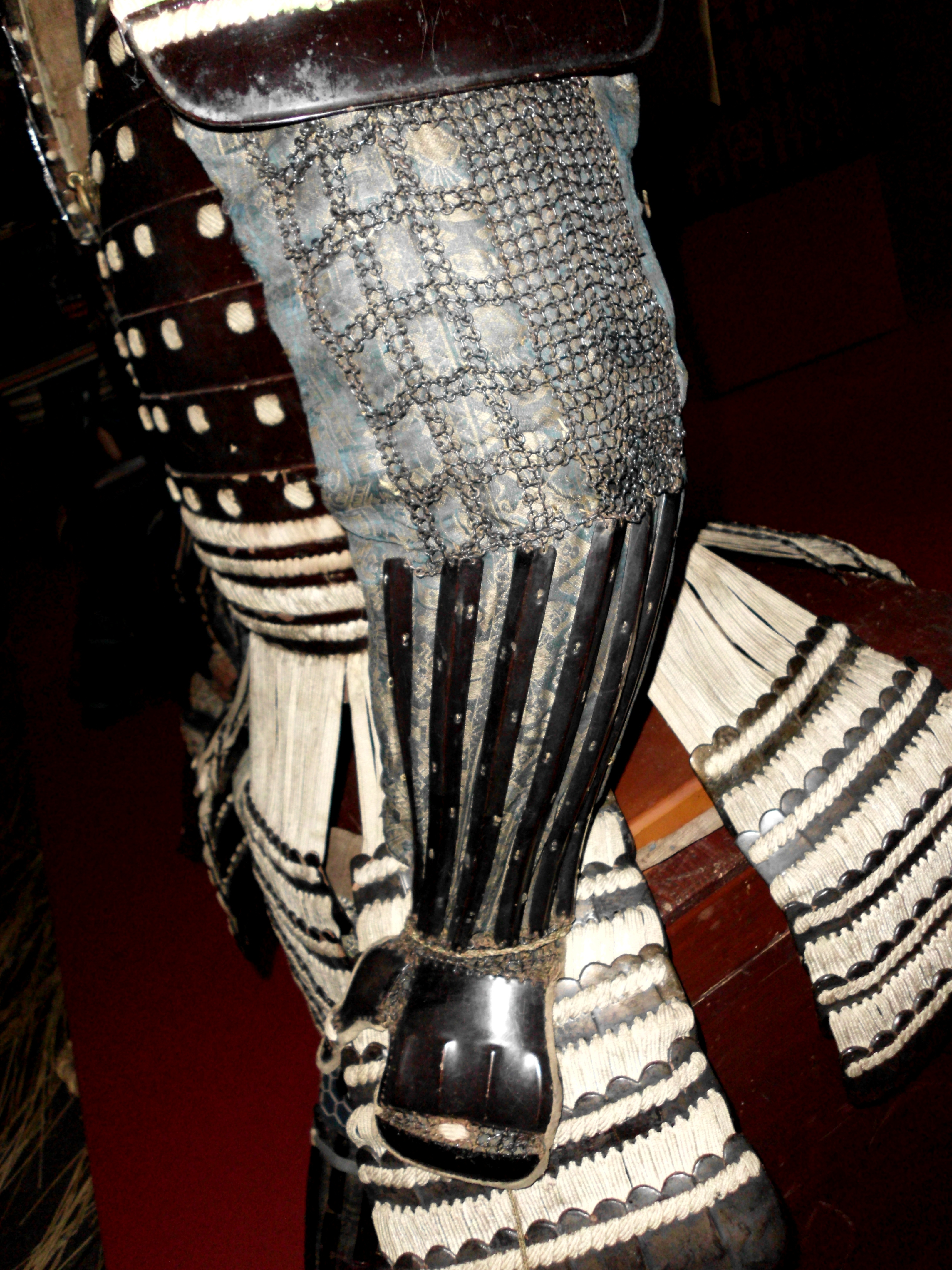 Photograph from the Return of the Samurai, an exhibit of Samurai art and artifacts held in the Art Gallery of Greater Victoria, Victoria B.C. Canada, August 6 through November 14 2010. Sponsered by Barry Till, internationally recognized Curator of Asian Arts at the AGGV, author, and art historian and by Trevor Absolon, major contributor, author, consultant, Samurai collector and specialist.